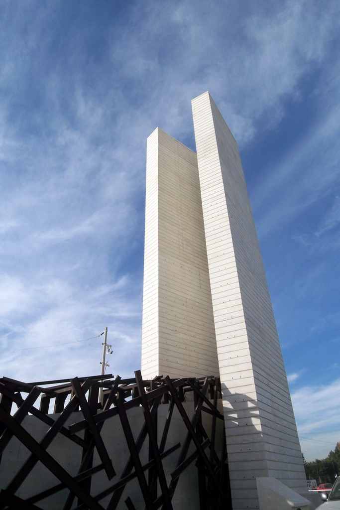 Monument of Hope in Tijuana